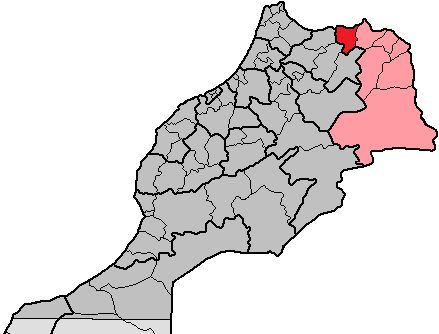 Location of the province Driouch within the region Oriental, Morocco. In total, Morocco has 16 regions, subdivided into 62 provinces and 13 prefectures.